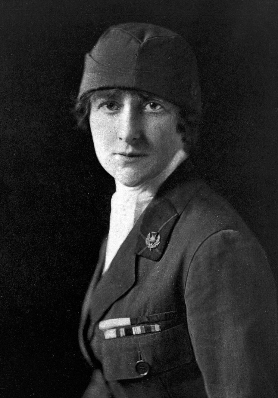 Photographic portrait of I.G. Hutton, half length, in uniform.